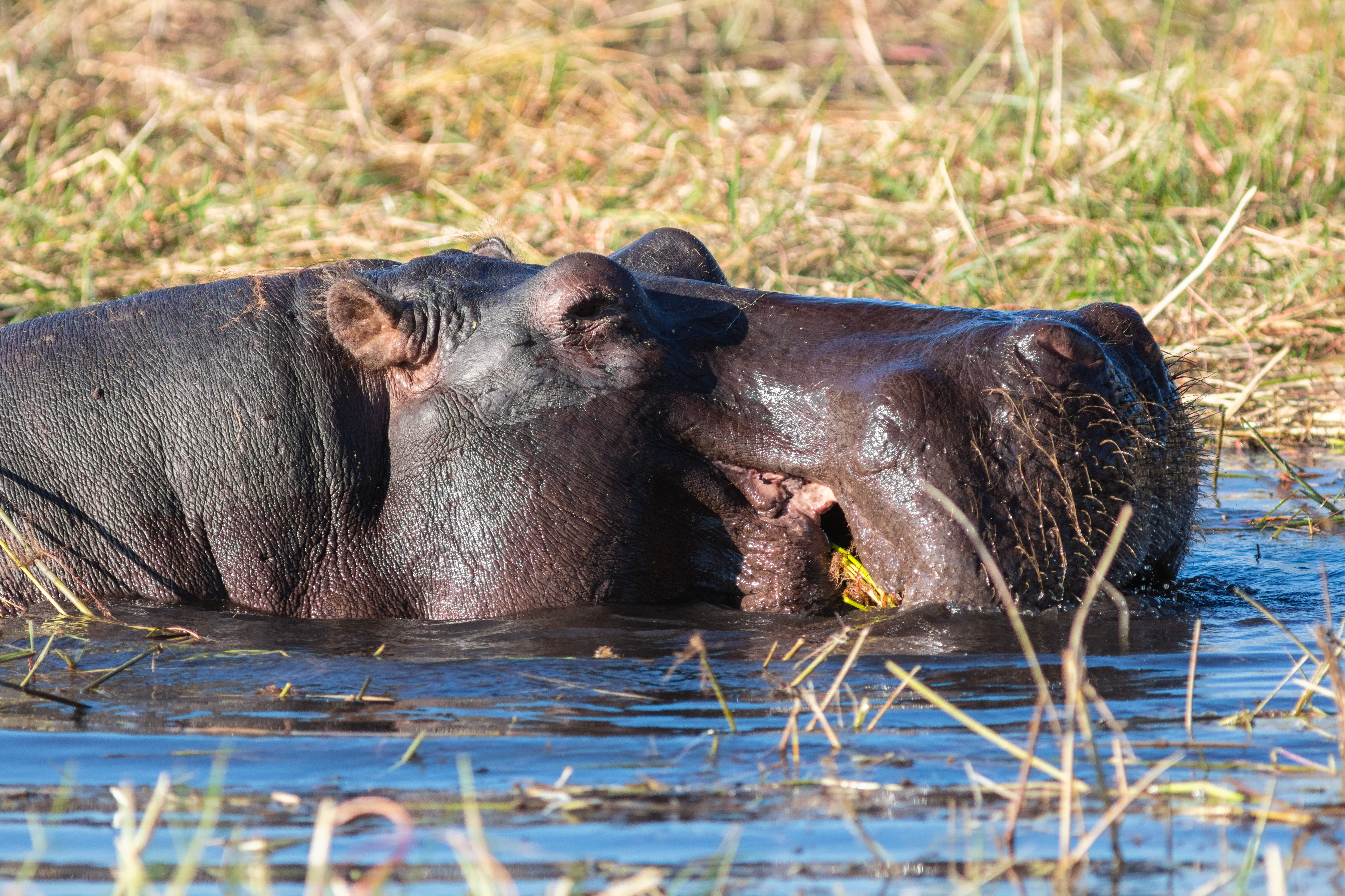 Hippo (Hippopotamus amphibius), Chobe National Park, Botswana